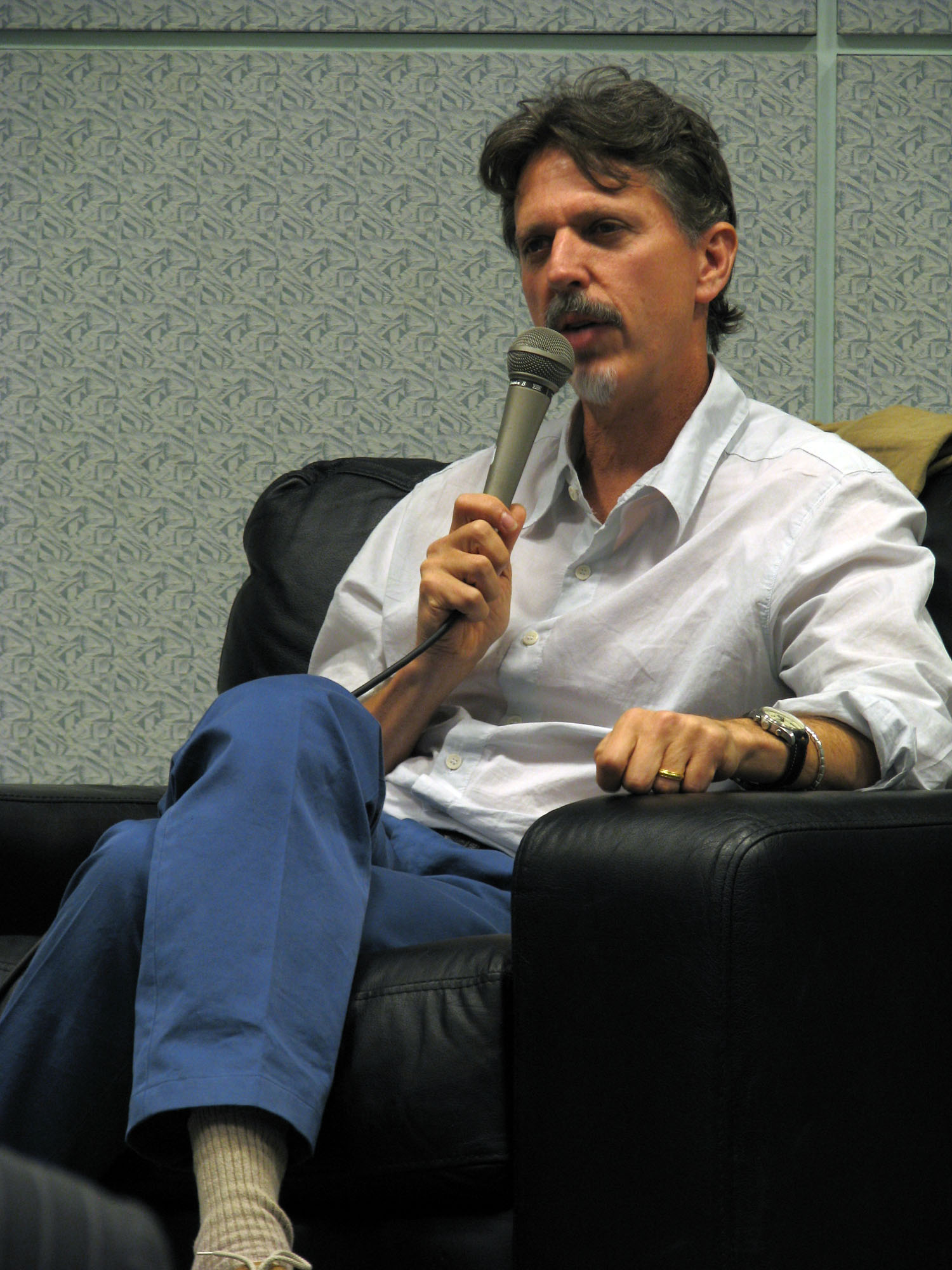 Heroes co-creator/executive producer Tim Kring This is when Kring infamously referred to people who watch television live with commercials as "saps and dipshits", although it actually did not sound so bad in context.